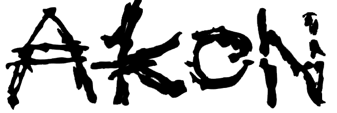 Typography of the artist AKON